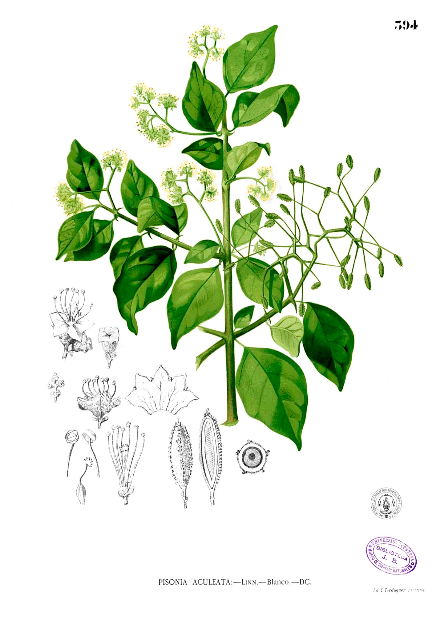 Plate from book